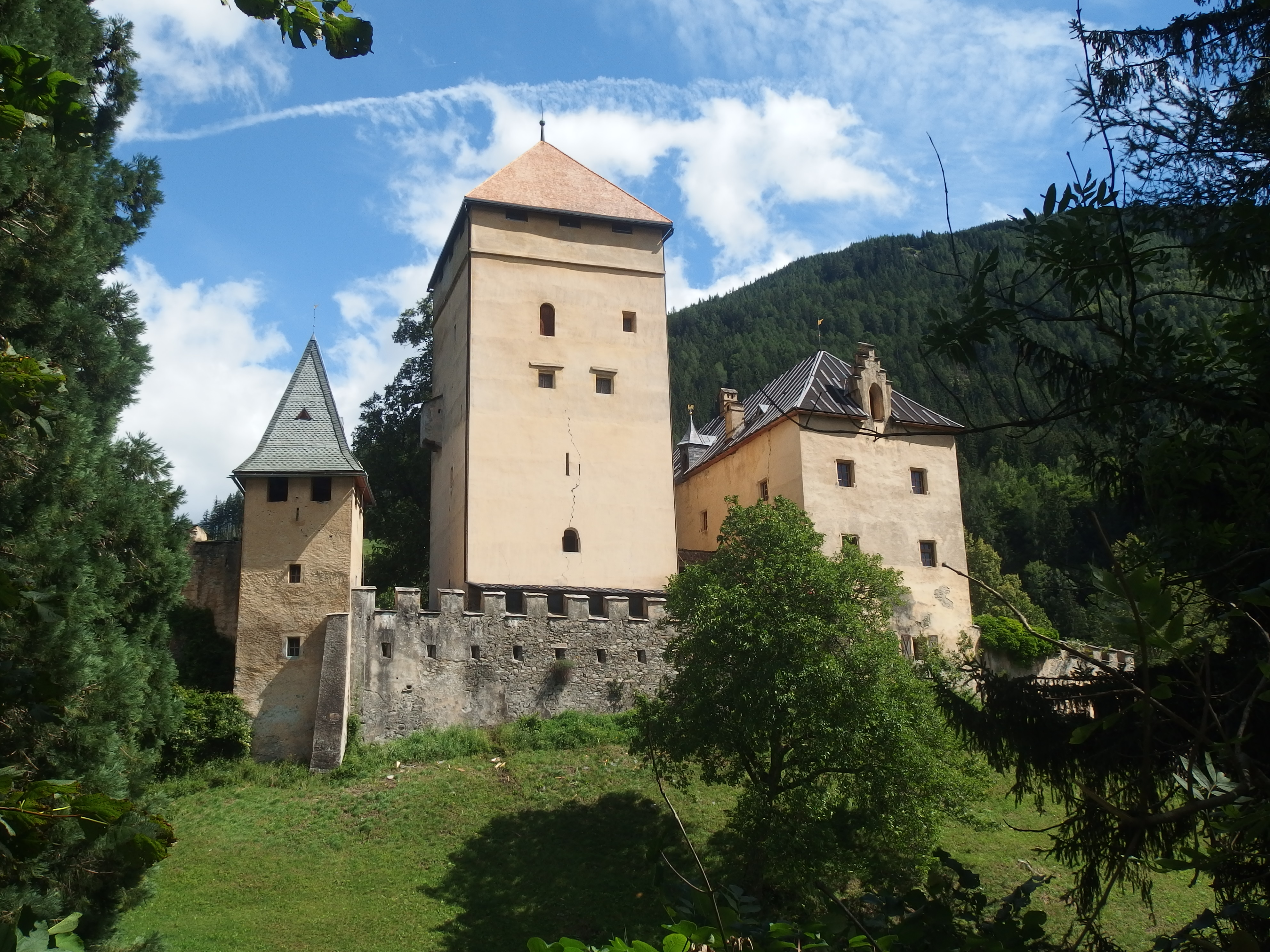 Obervellach, Spittal an der Drau District, Carinthia, Austria. Groppenstein Castle.